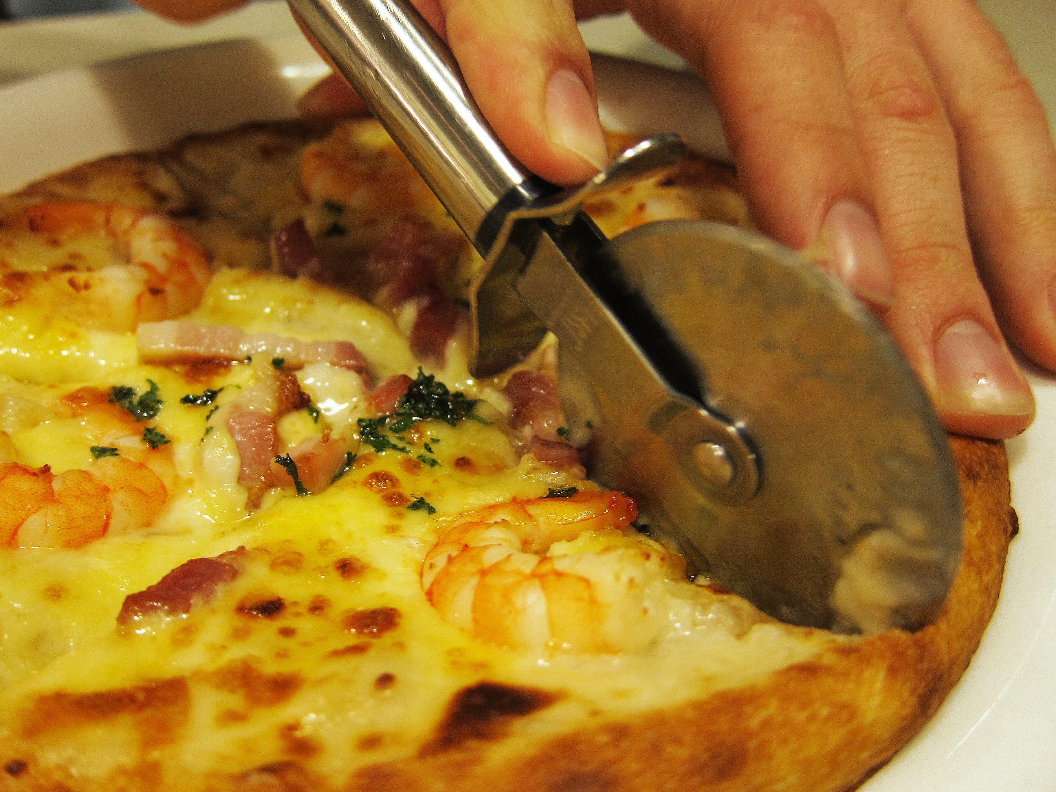 The personal-sized pizza served at Fracasso in Iwakuni. The estaurant offers an assortment of pizzas, each with a unique flavor and cheaply priced.